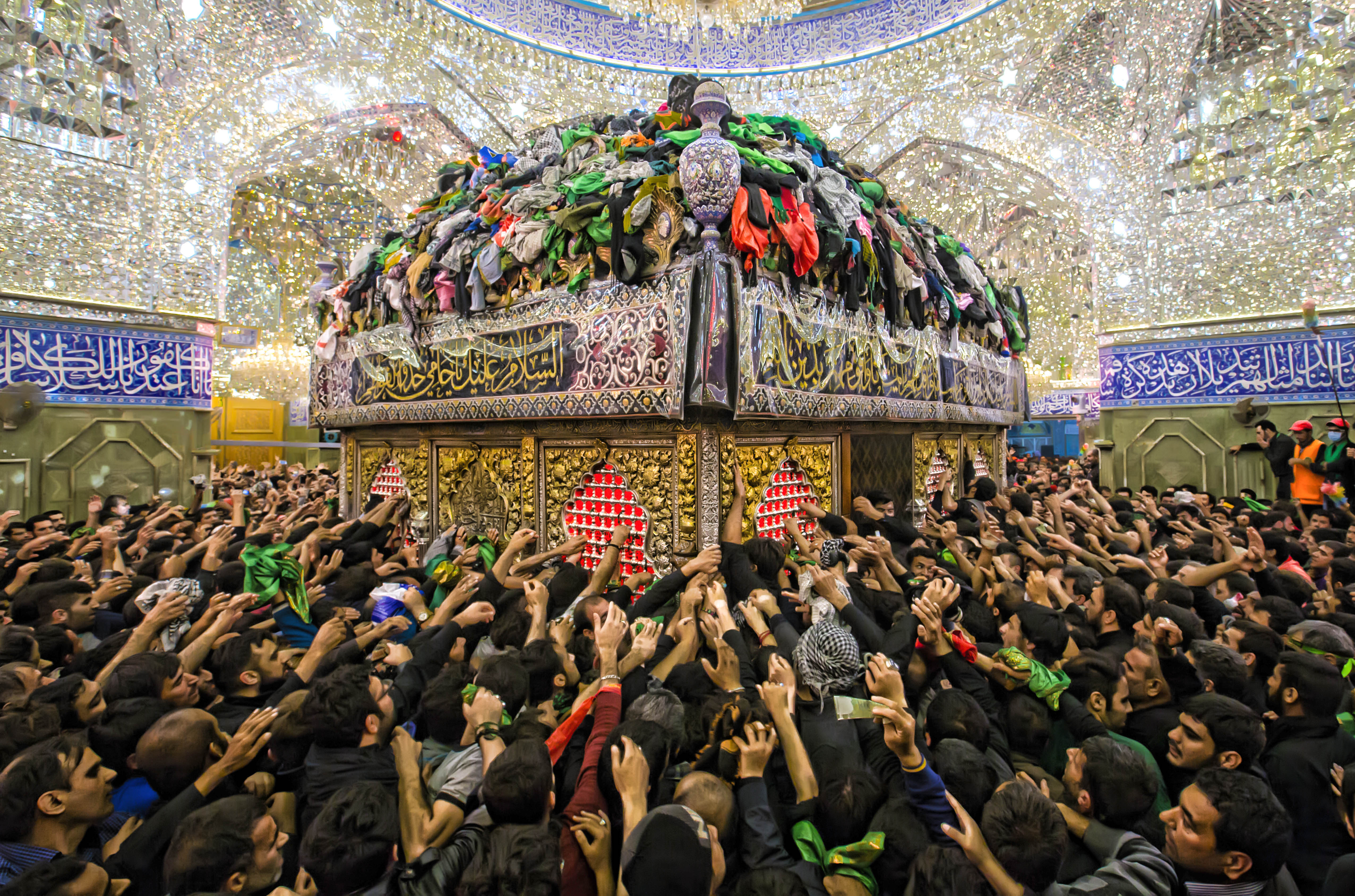 Tomb of ‘Abbās in Karbala, Iraq